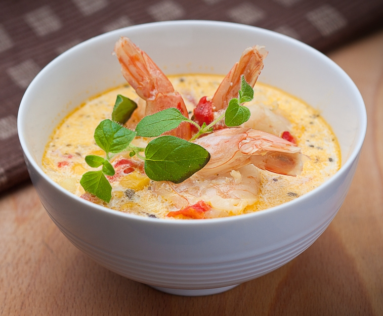 A chowder is a rich and creamy soup, usually made from seafood, vegetables and cream. This particular one contains shrimps, corn and red peppers. The photo was lit with a single SB-24, 1/16th power, through brolly, back left - basically so close that I had to crop it from the photo ;). A white card camera right provides some fill.